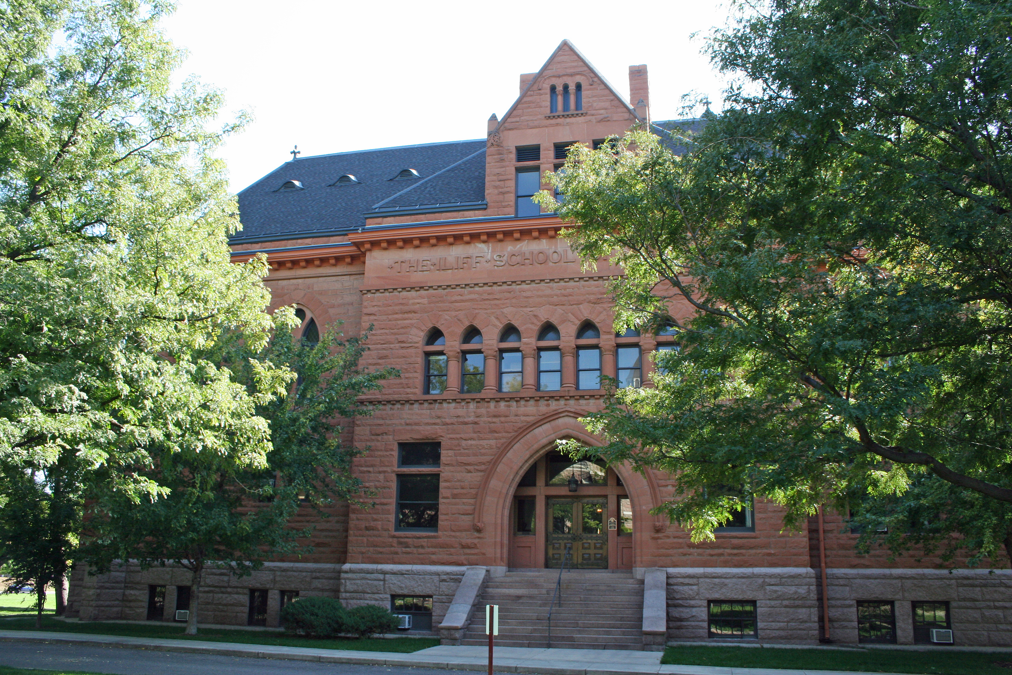 Iliff Hall, located on the University of Denver campus at 2201 South University Boulevard